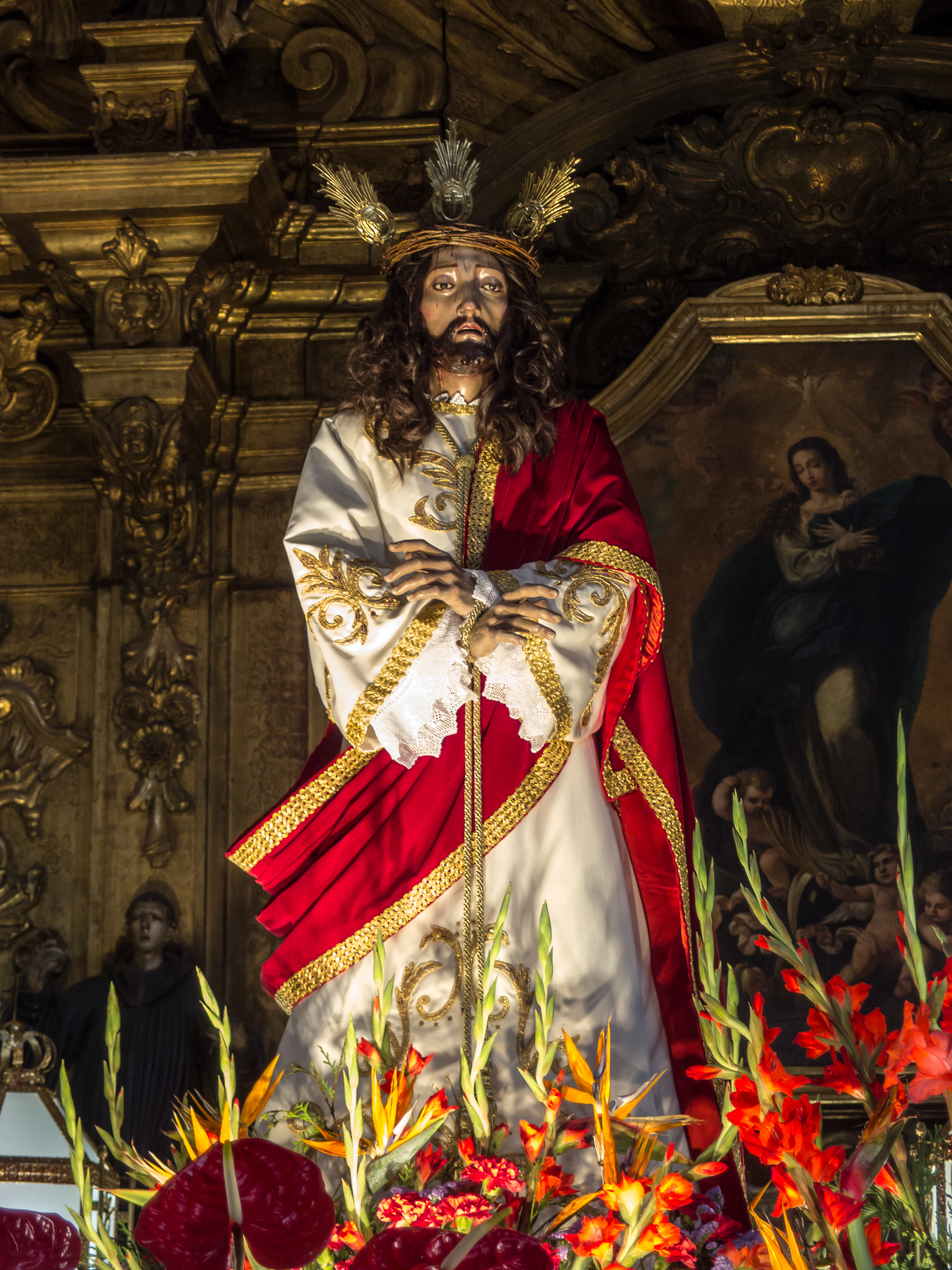 Jesúis de la Humillación. Paso titular de la cofradía del mismo nombre. This is a photography of a Folklore festival in Spain (Wikidata id Q9075892).